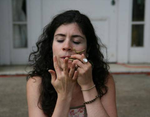 Deirdre Morgan, executive director of the Jew's Harp Guild, playing the Rajasthani morchang, a variation of the instrument.